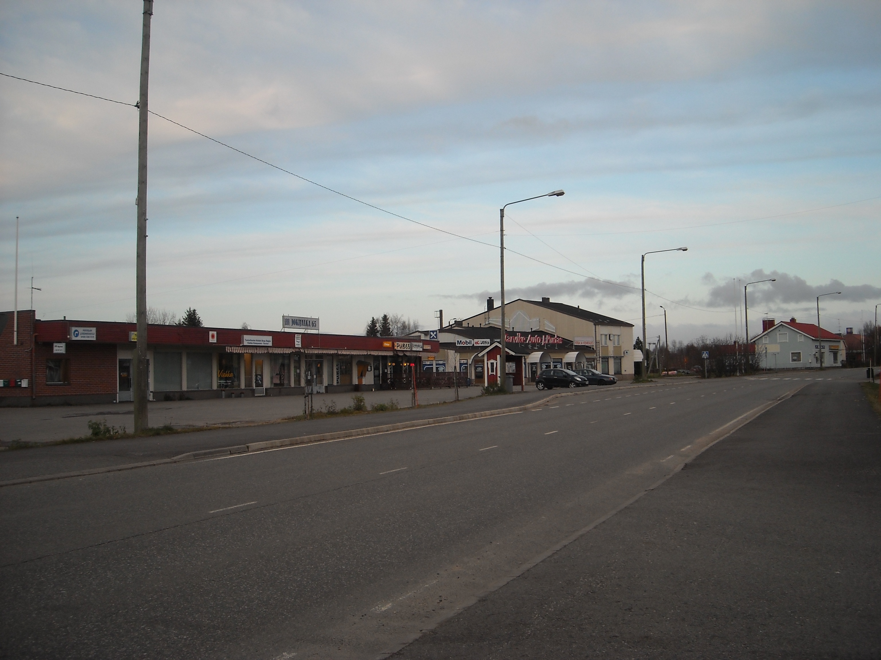 Regional road 943 and buildings in Kolari, Finland.